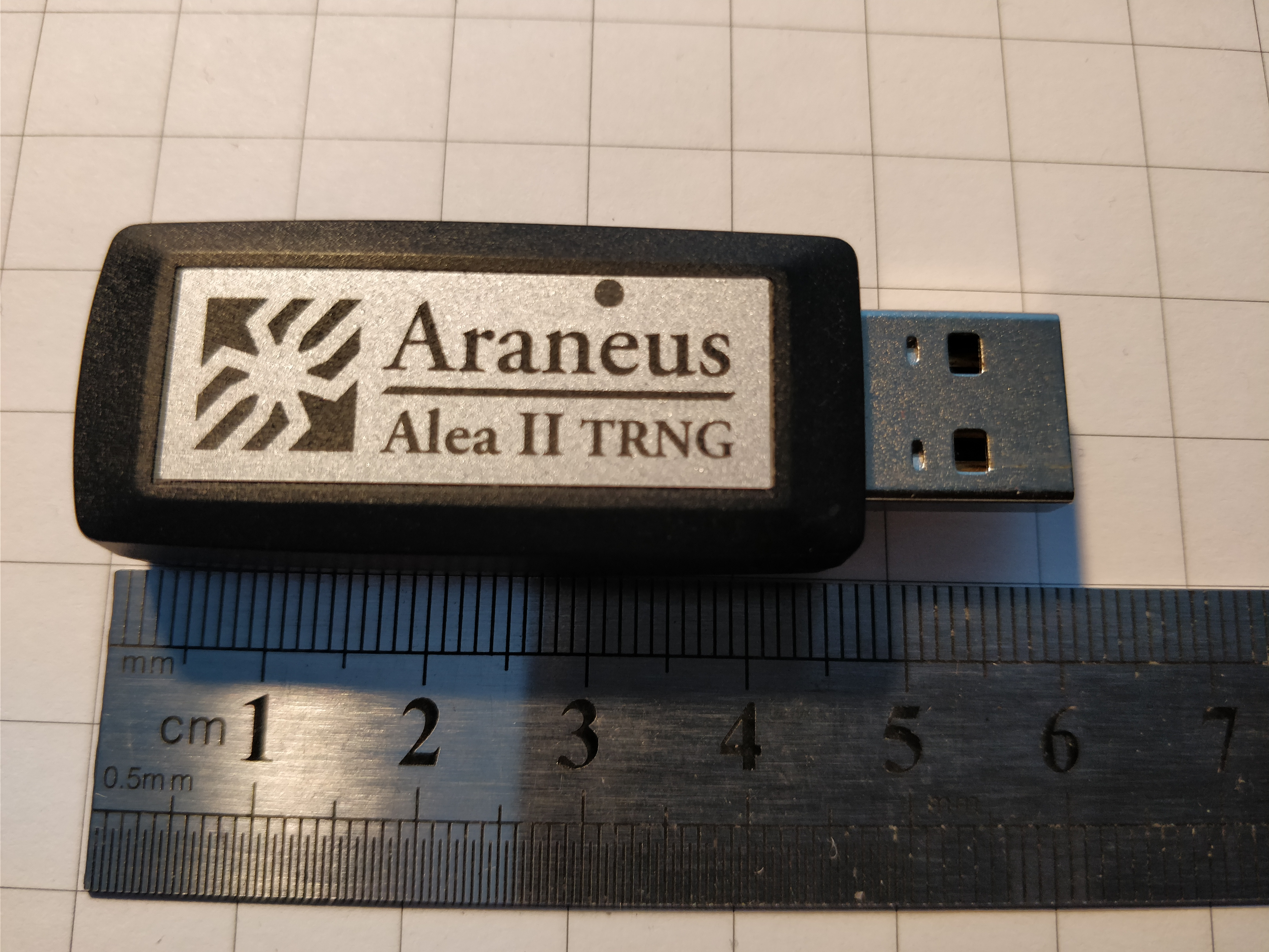 Picture of a TRNG (true number generator) manufactured by Araneus.